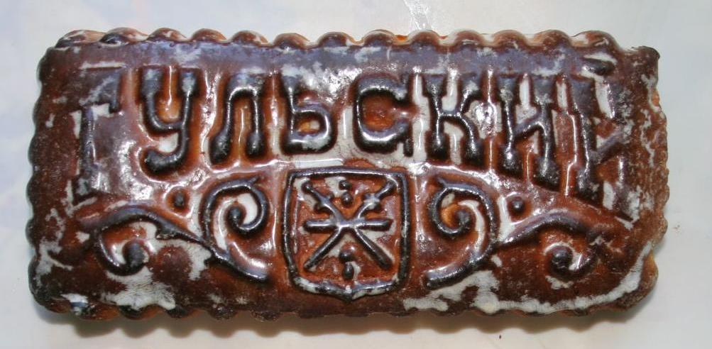 Tula gingerbread